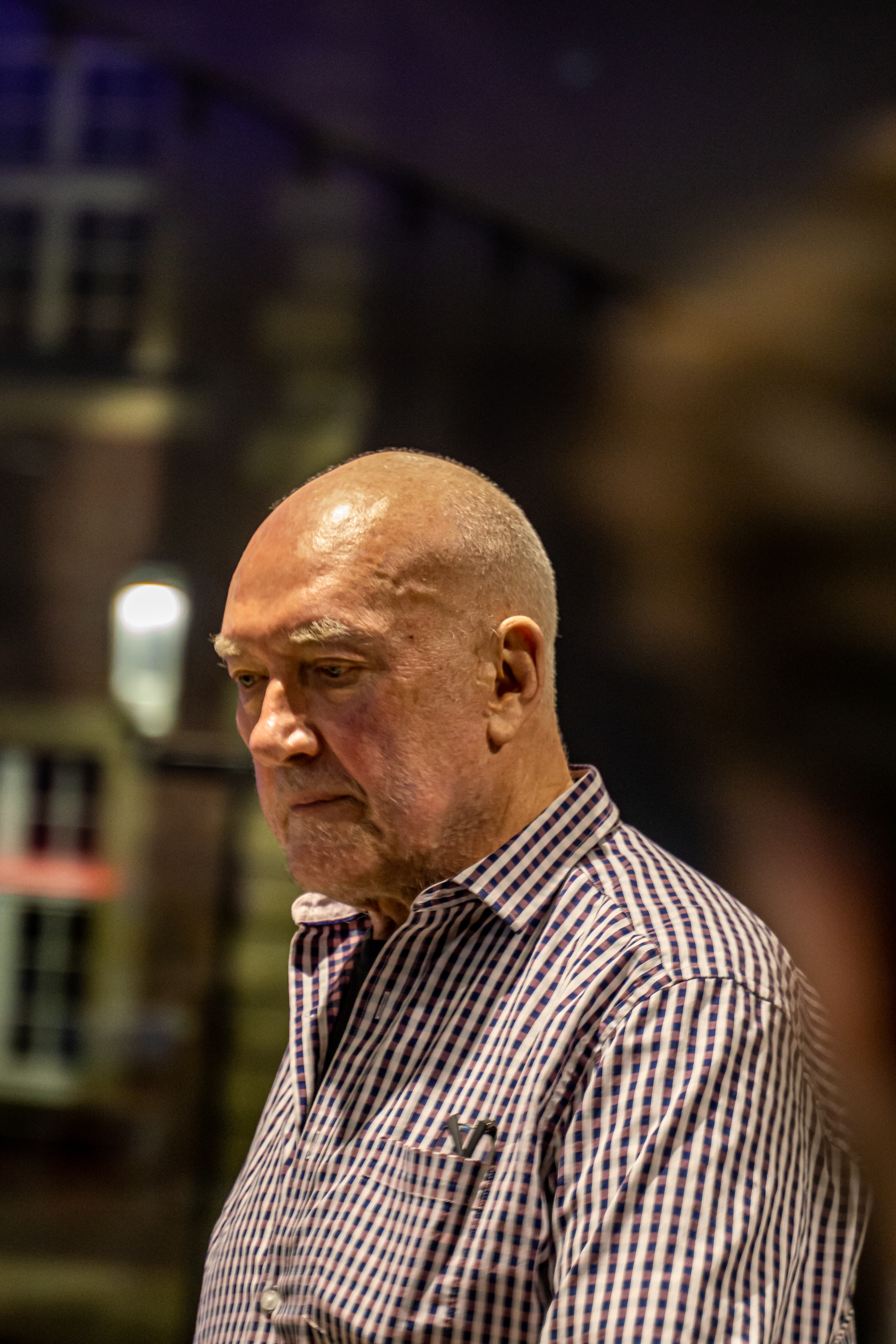 Sean Scully at the presentation of "Opulent Ascension" at the LWL Museum of Art and Culture